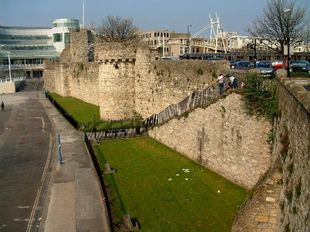 Southampton City Walls. The old quay side.